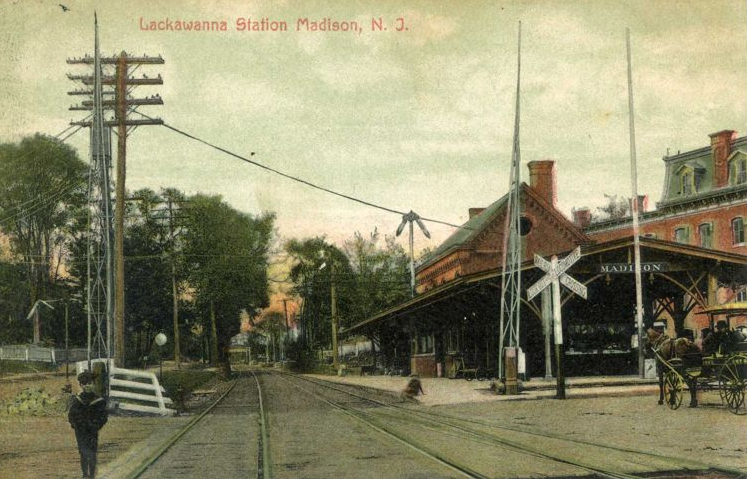 Madison NJ